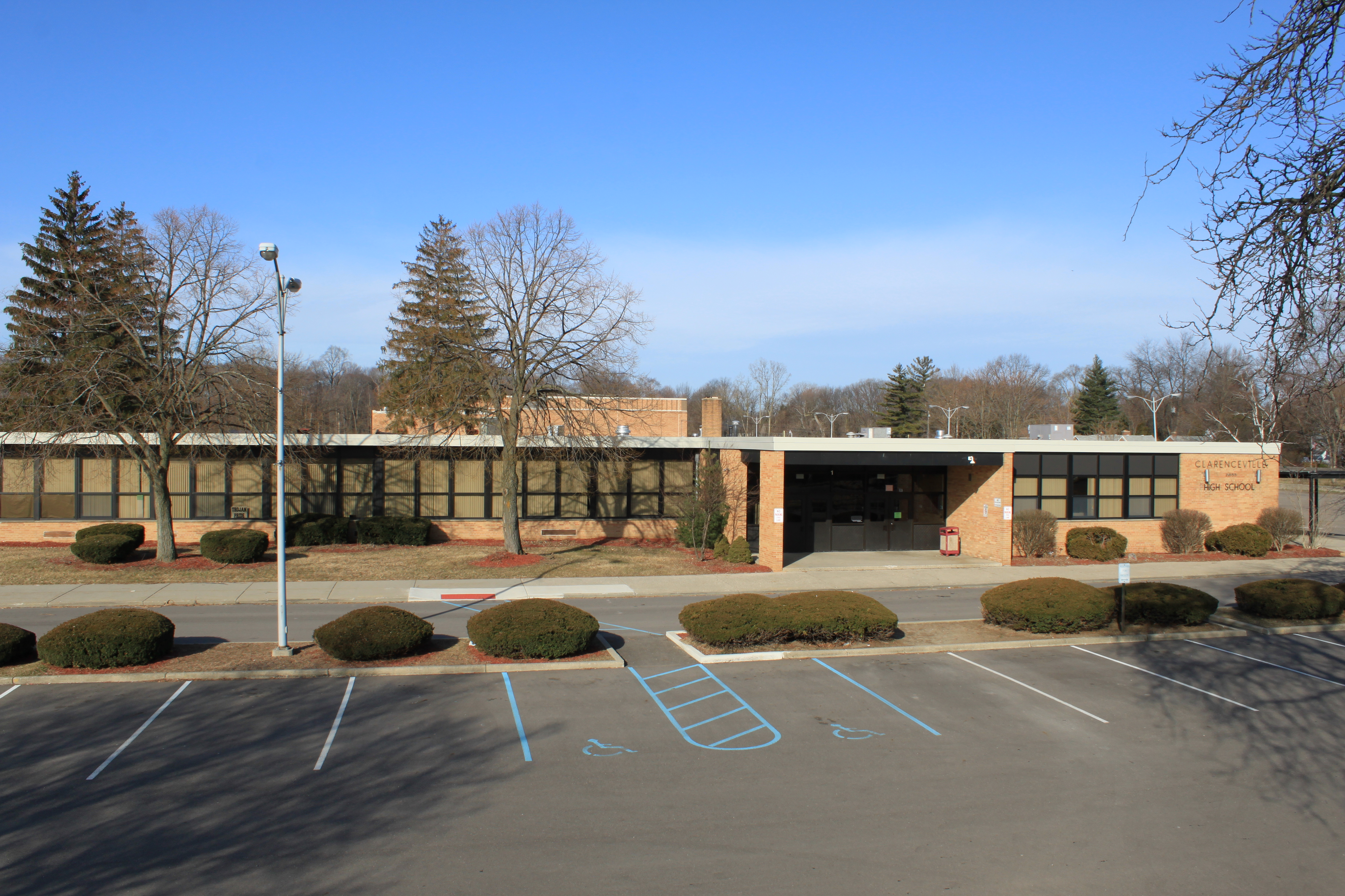 Clarenceville High School, 20155 Middlebelt Road, Livonia, Michigan